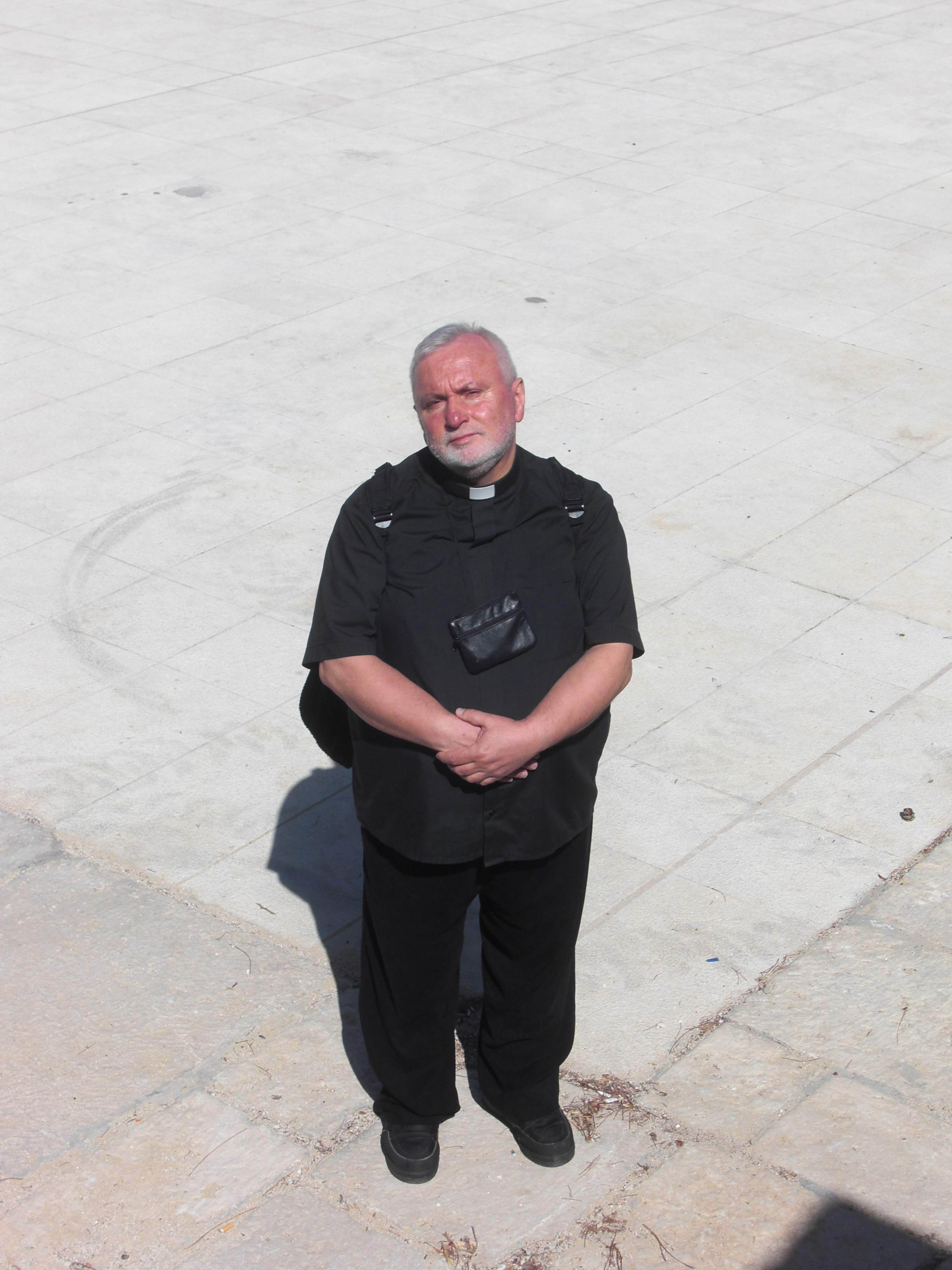 in the place in which Jesus was tempted by Satan